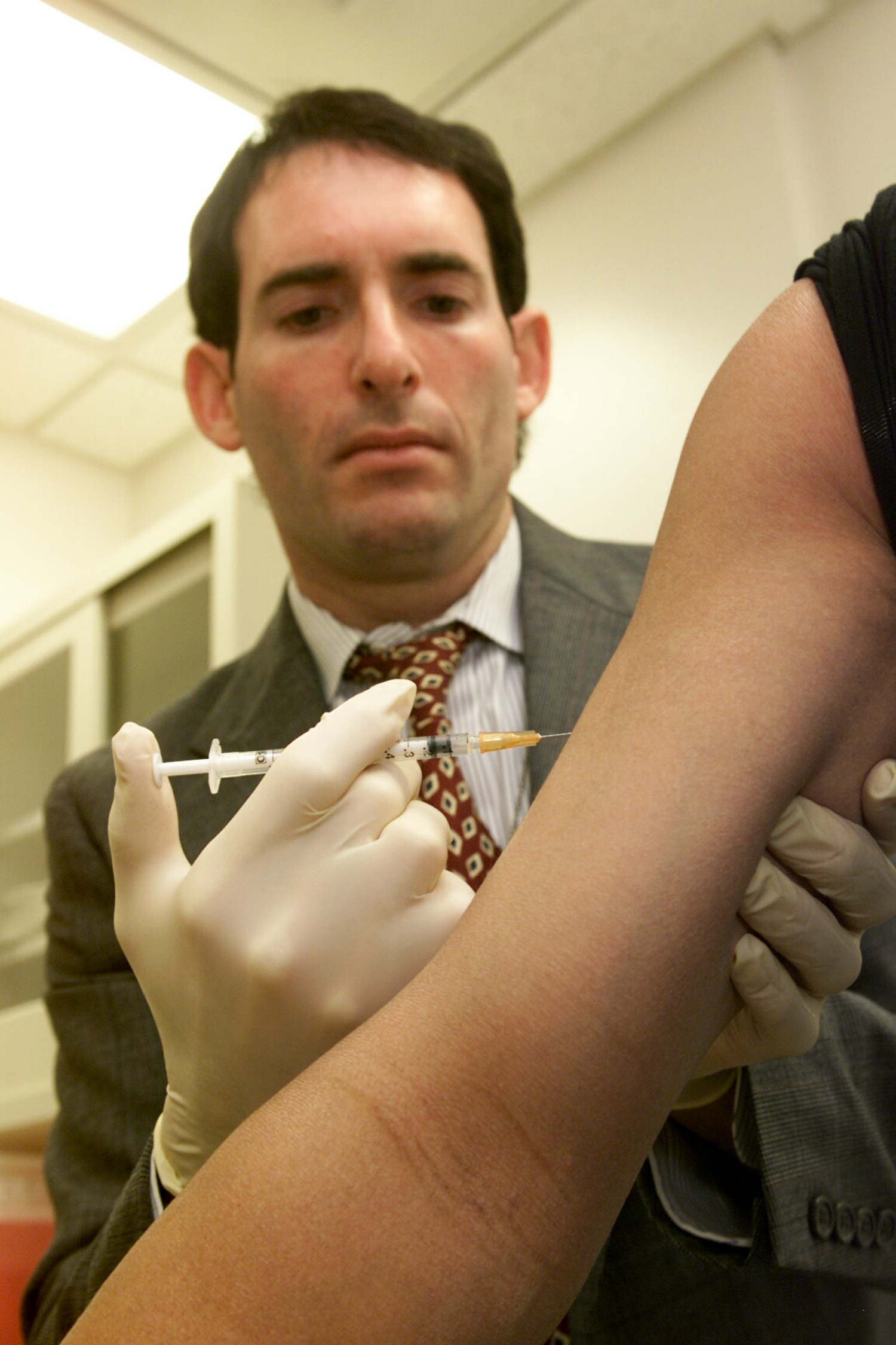 Title Giving a Vaccination Description A male doctor is administrating a vaccination. Topics/Categories People -- Adult People -- Health Professional Type Color, Photo Source National Cancer Institute